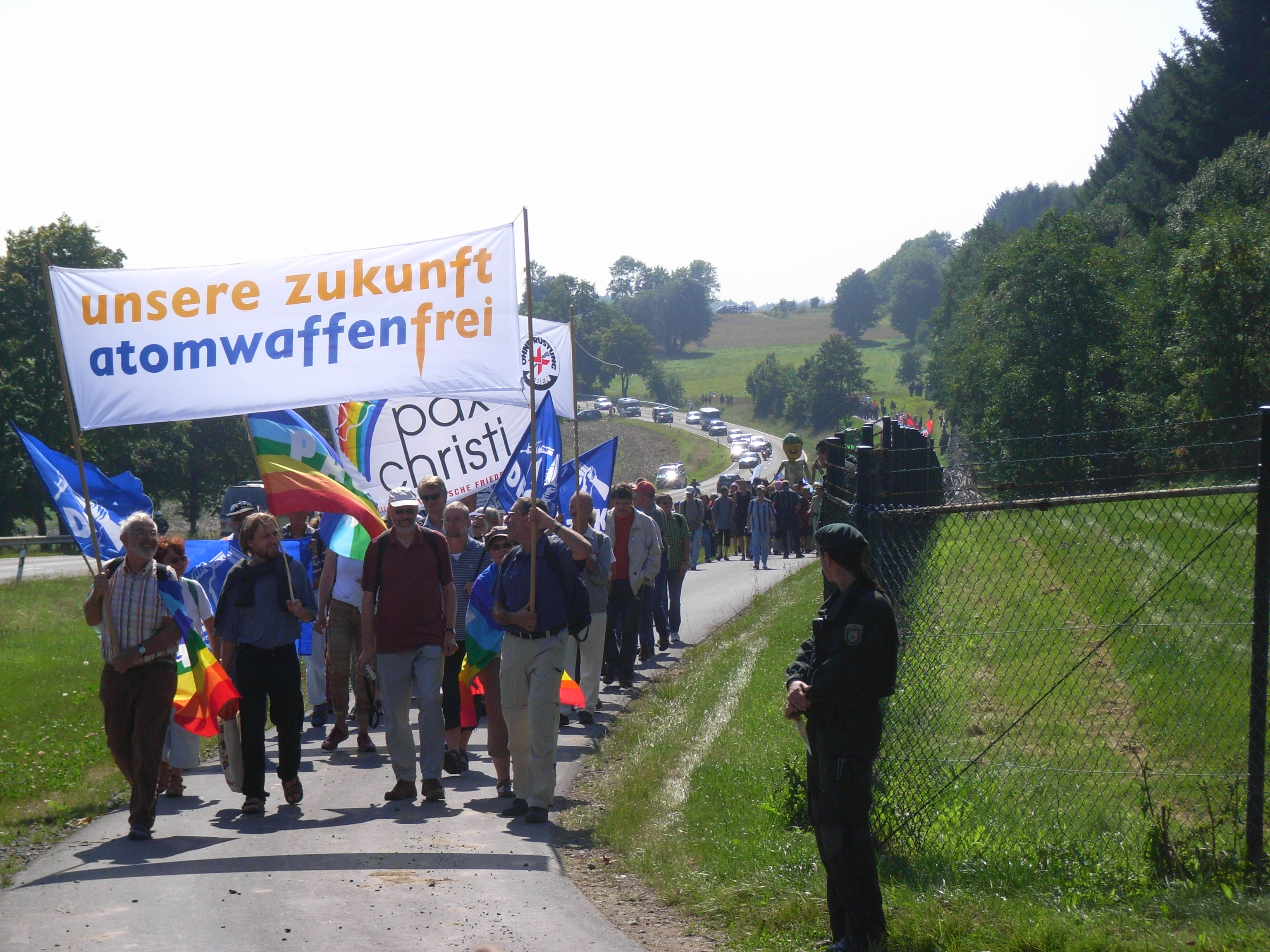 Demonstration against nuclear weapons in Germany, August 30, 2008 at the Büchel airbase, with around 2000 participants, in the context of the campaign "Unsere Zukunft - atomwaffenfrei!" (Our Future - Nuclear Weapon Free!)